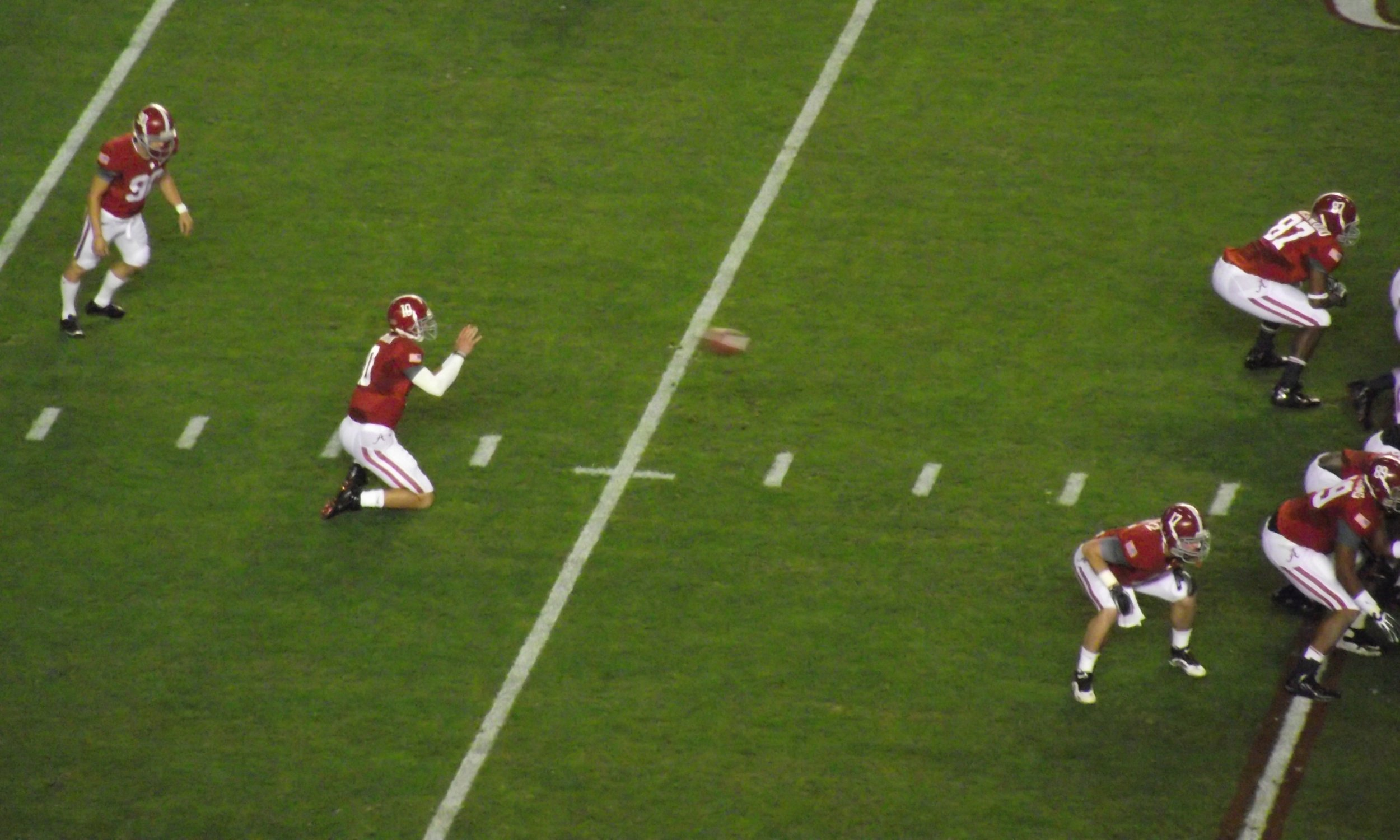 Jeremy Shelley attempts a field goal during an Alabama football game.